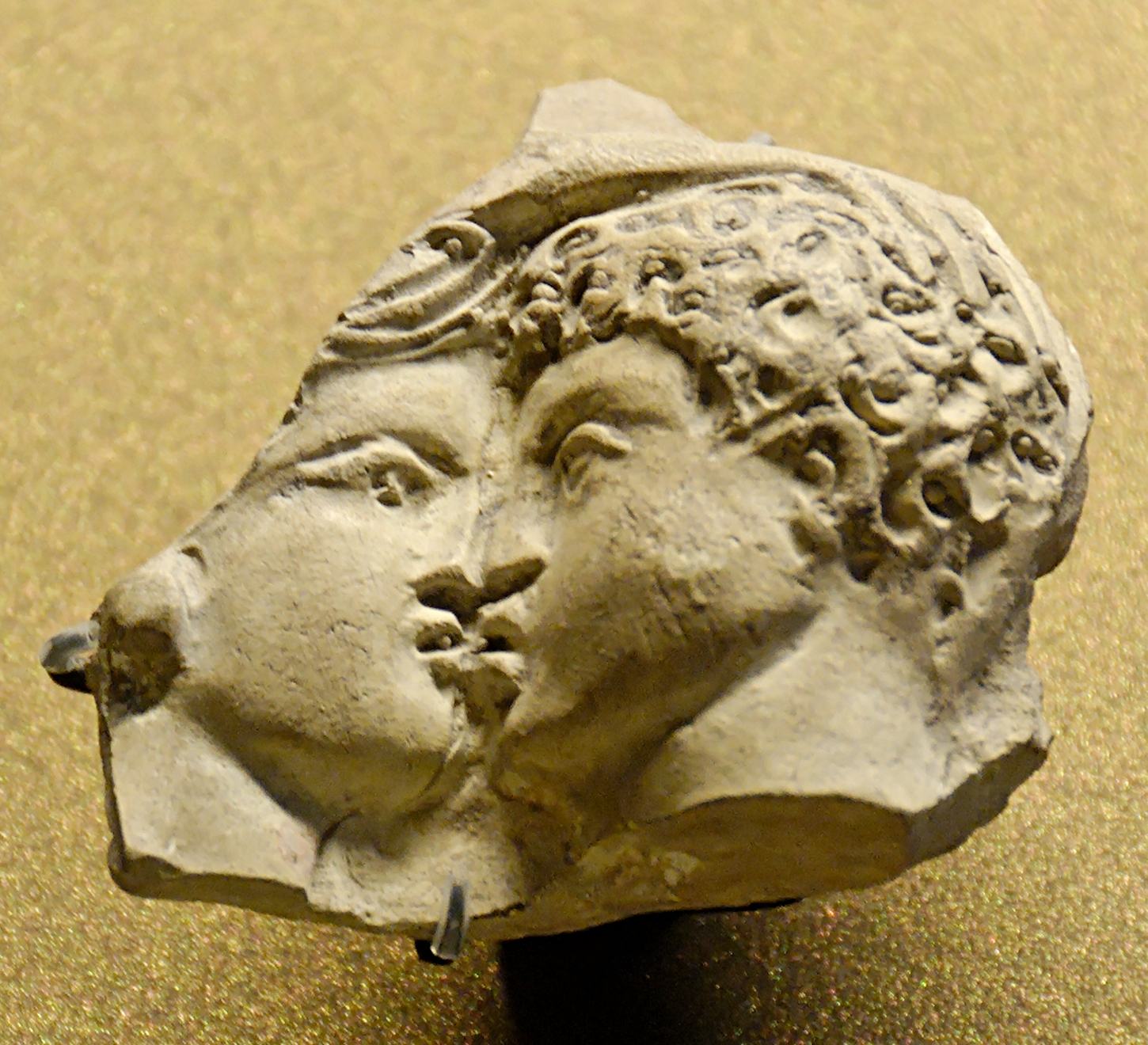 Oscillum (clay disk with relief decoration) depicting a couple kissing. Terracotta figurine made in Tarsus, Roman Era.